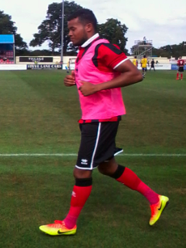 Dominic Smith pictured in 2016